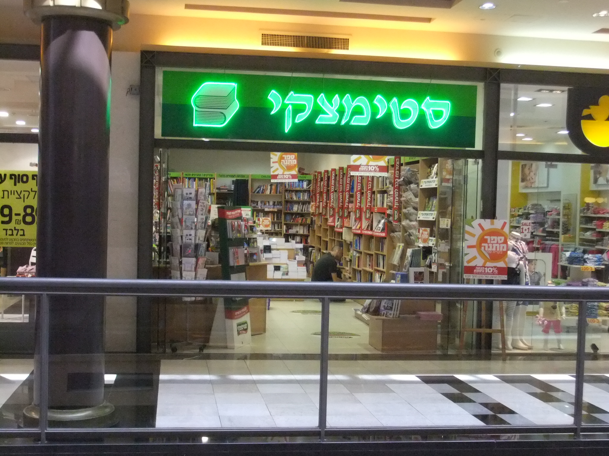 Steimatzky shop in Pisgat Zeev mall